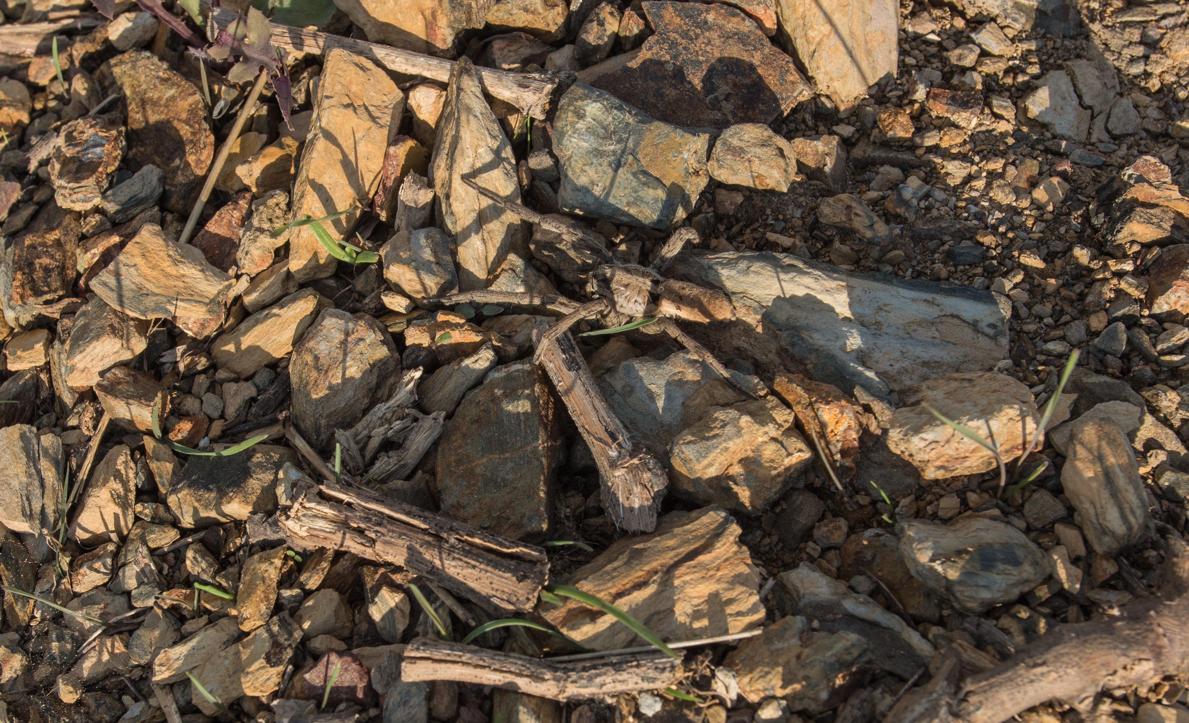 Hogna radiata radiata (False Tarantula).